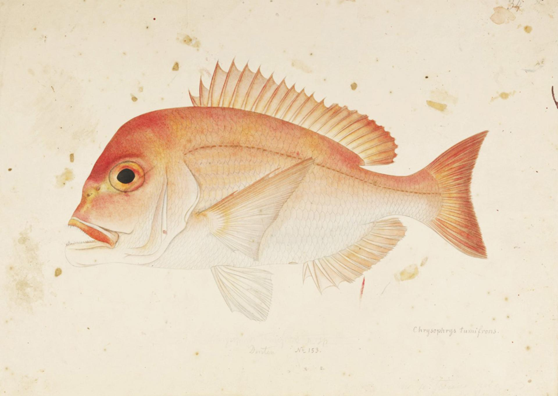 Dentex tumifrons (Temminck and Schlegel), synonym Evynnis tumifrons (Temminck & Schlegel, 1843) accepted name WoRMS 398545